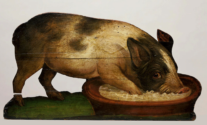 Dummy board, pig feeding from a bowl, British 1750-1800 Victoria and Albert Museum, London, museum no. W.81-1926 (Link)